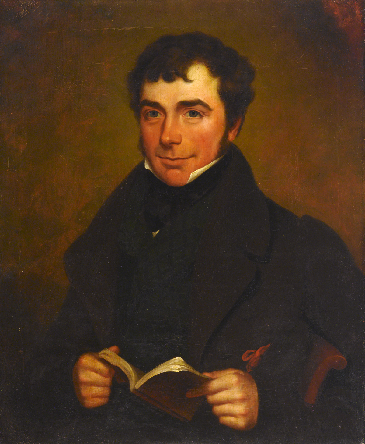 Portrait of Henry II Langford Brown (1802-1857), by Richard Augustus Clack (1804–1881), oil on canvas, 74.2 x 61.6 cm, collection of Royal Albert Memorial Museum, Exeter. He originated at the estate of Combe satchfield, Silverton, Devon, sold by his family in 1831. In the 1830's he built Barton Hall on his family's manor of Kingskerswell, Devon. He was a keen yachtsman at nearby Torquay. Provenance: the portrait, together with one of Henry I Langford Brown (1721-1800) were donated to RAMM in 1957 by Thomas Hercules Langford Brown.